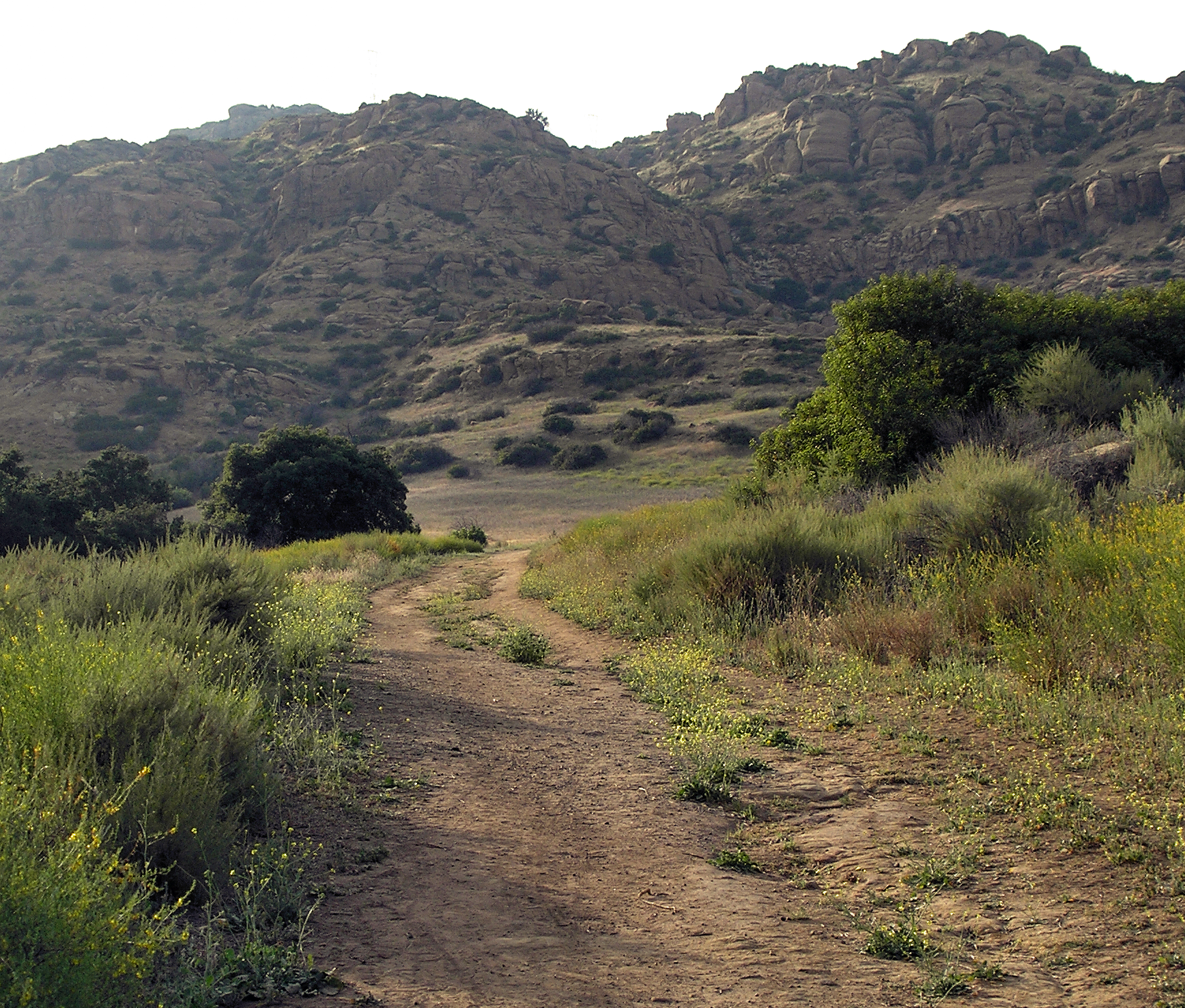 Portion of the Old Stagecoach Trail or Old Santa Susana Stage Road within Santa Susana Pass State Historic Park. Also showing the sandstone rock formations of the Simi Hills range. Located above the western San Fernando Valley and the community of Chatsworth (Los Angeles), in Southern California.